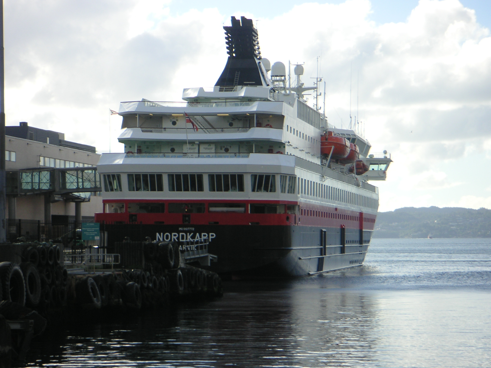 Hurtigrutenship at the Terminal in Bergen